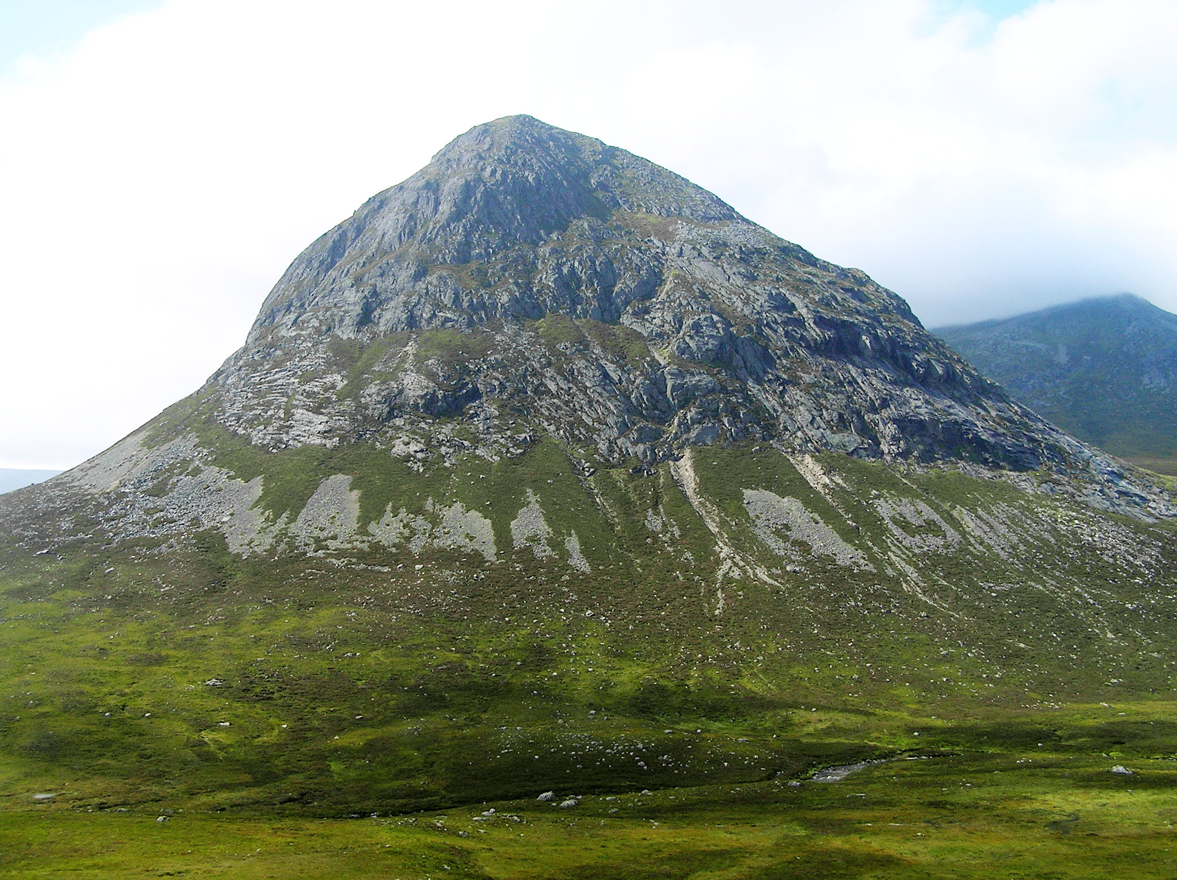 This photograph shows The Devil's Point from the track between Robbers' Copse and Corrour Bothy.